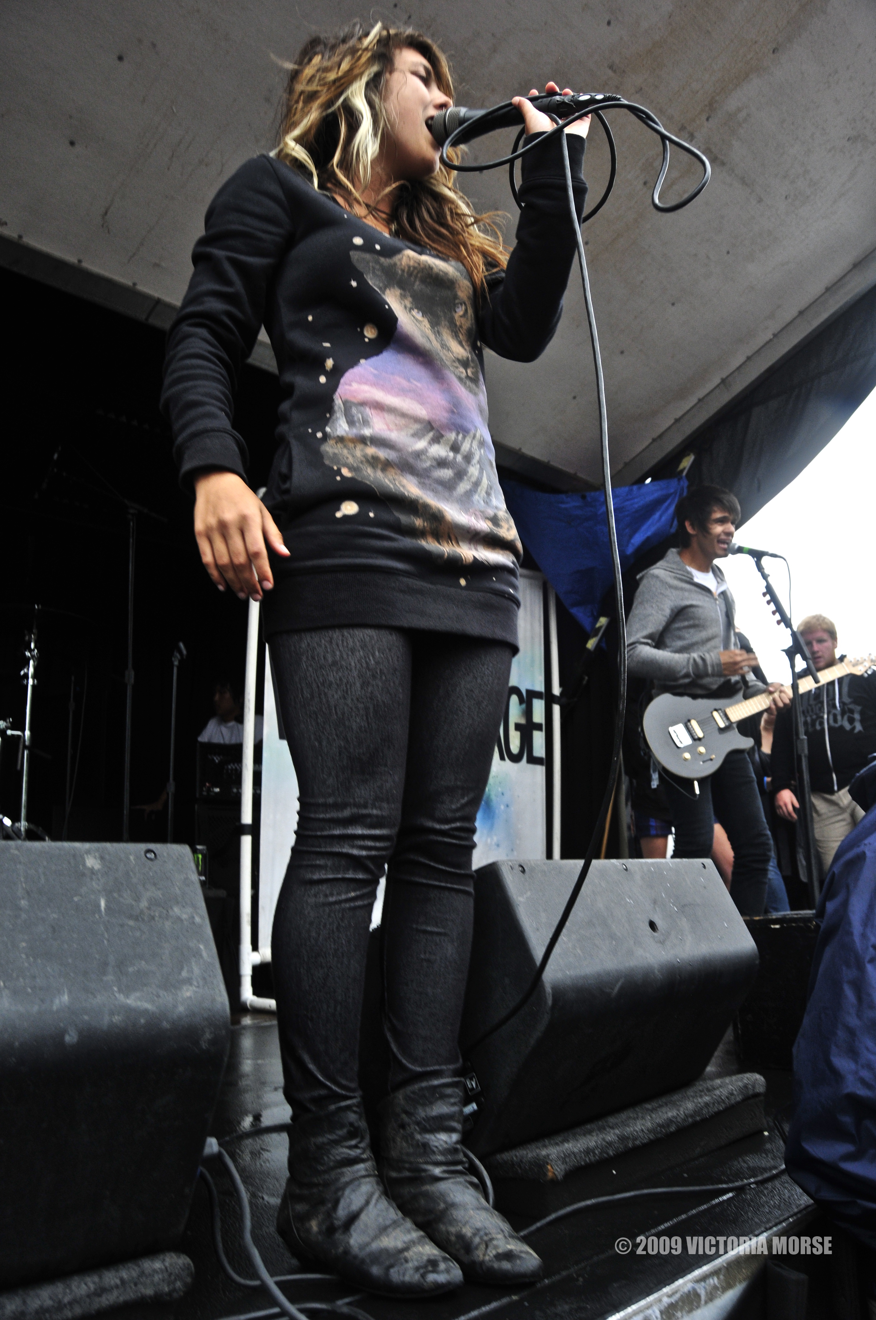 Versa Emerge Warped Tour Mansfield, MA